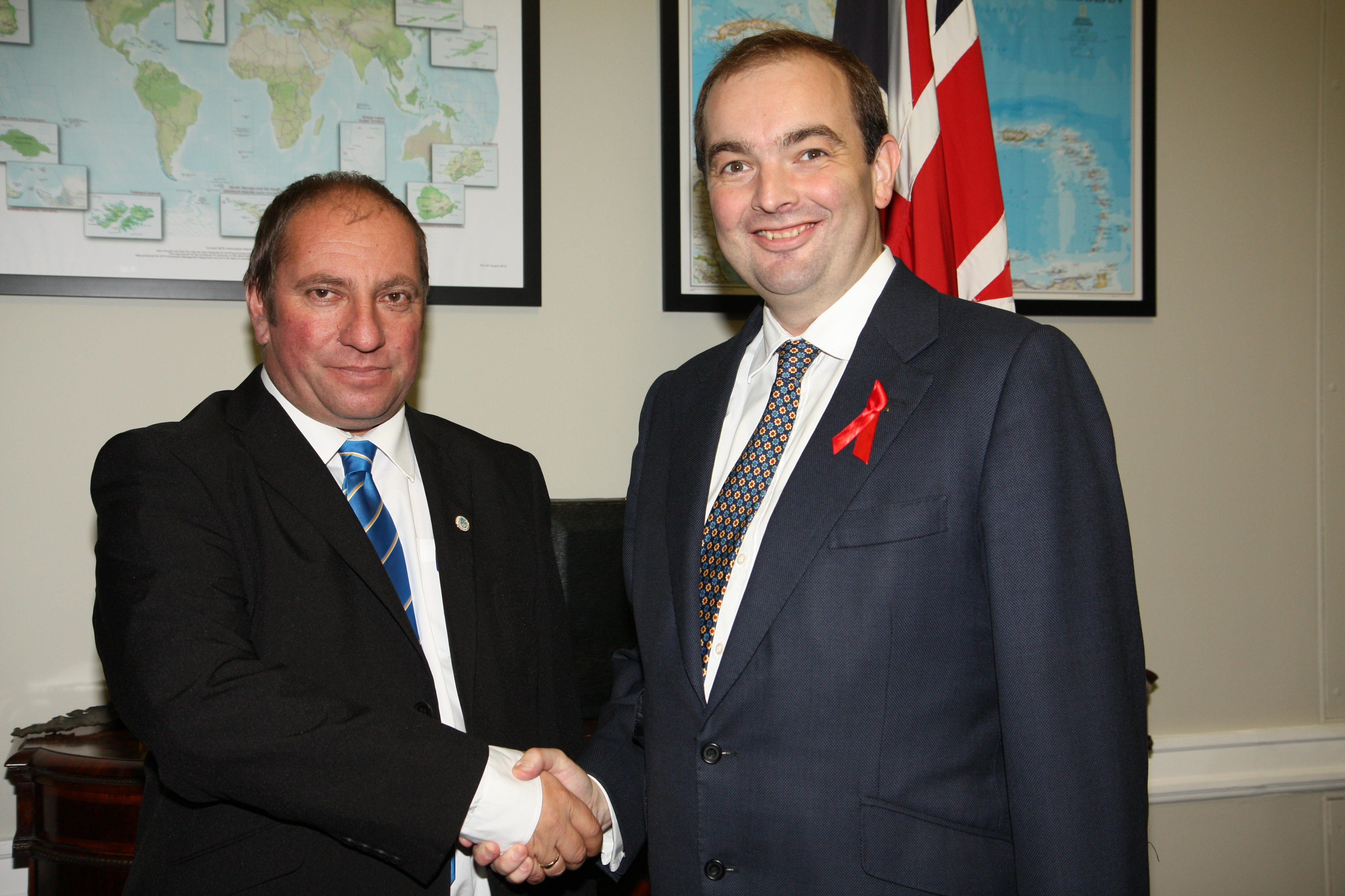 Foreign Office Minister James Duddridge meeting Ian Lavarello, Chief Islander of Tristan da Cunha in London, 1 December 2014.